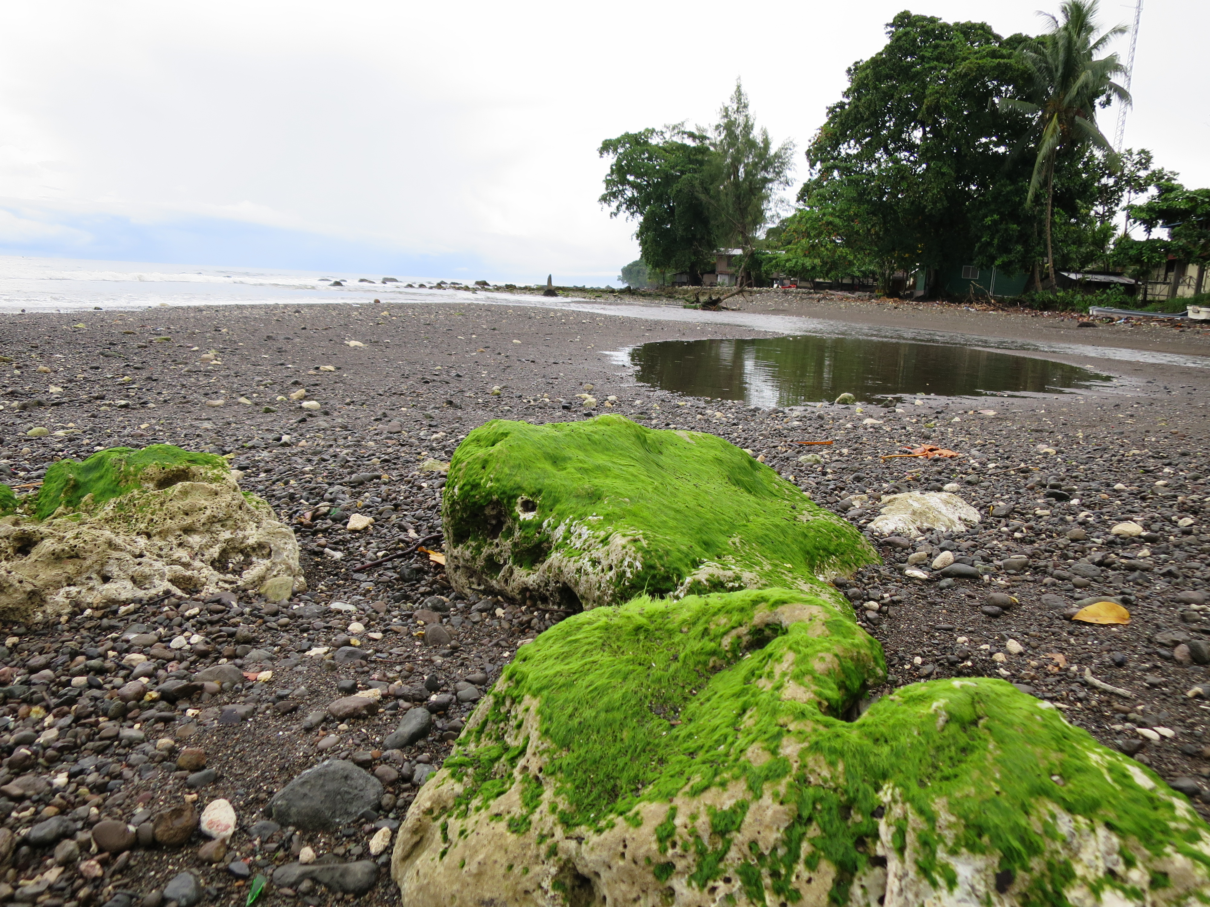 A photograph taken at the beach at Kirakira.